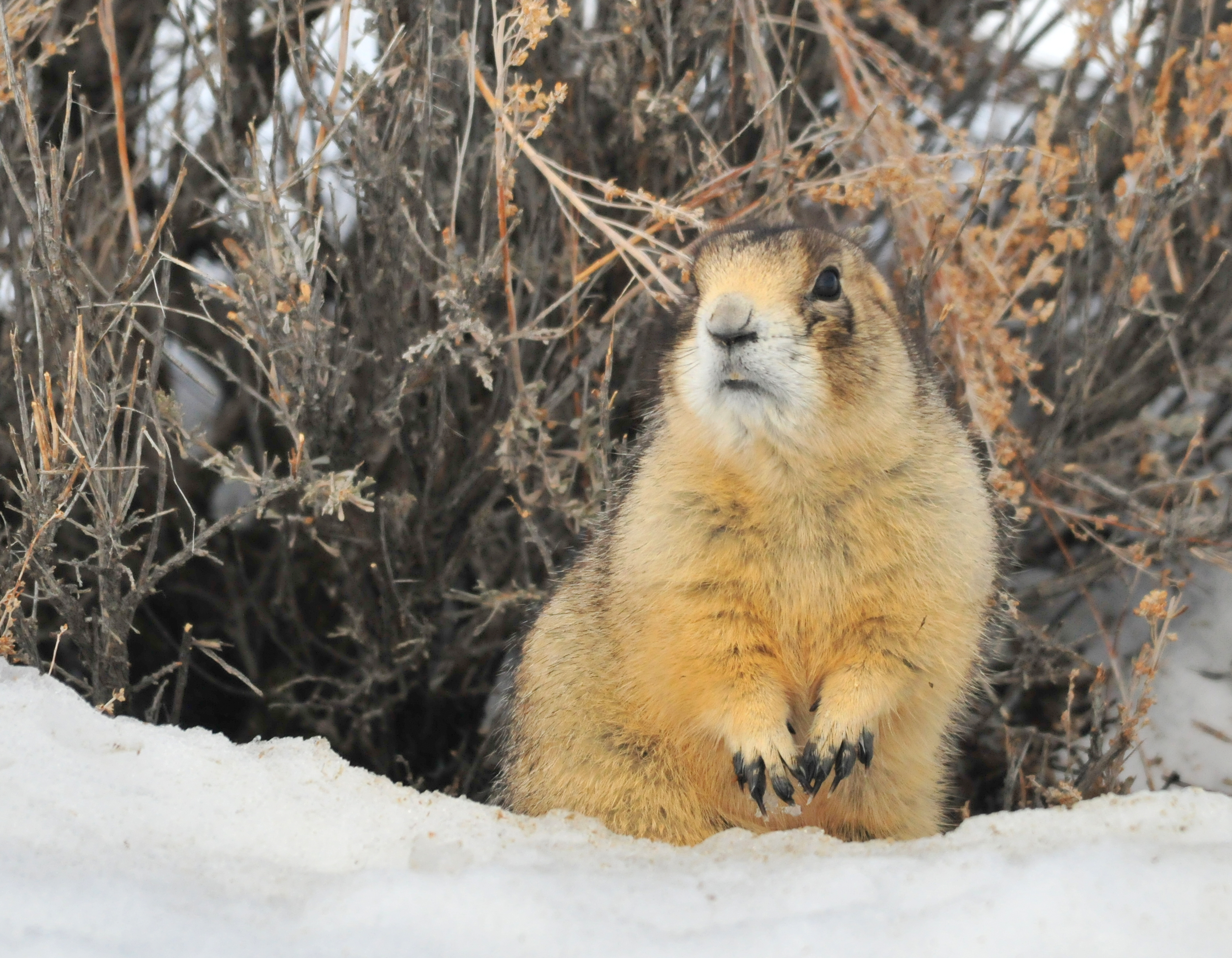 A white-tailed prairie dog emerges from its burrow under a Wyoming big sagebrush. Photo: Tom Koerner/USFWS